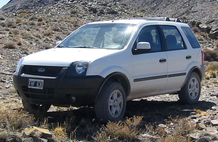 Ford EcoSport in Argentina